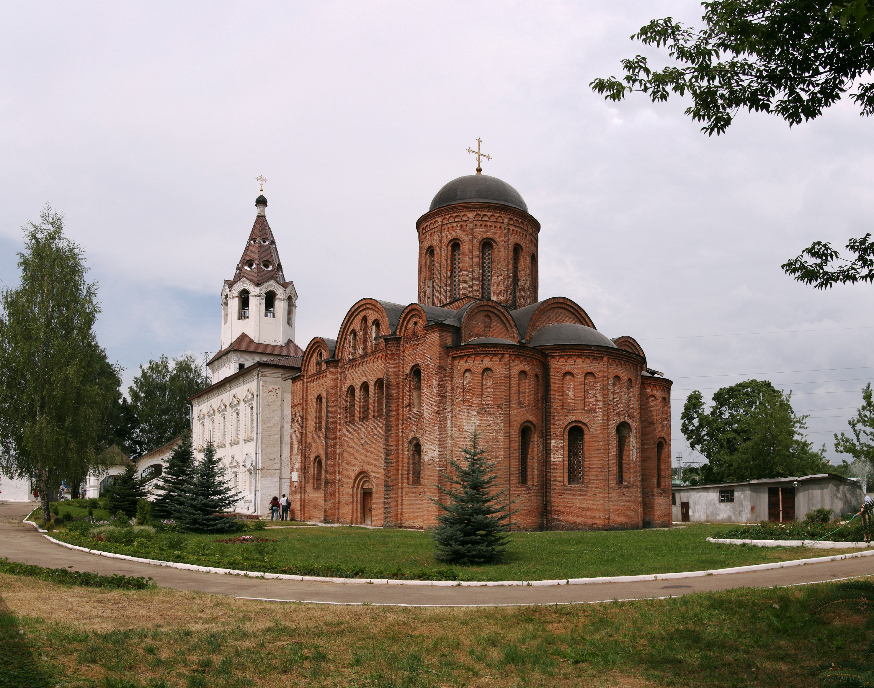 Church of Saint Peter and Saint Paul on Gorodyanka (XII c) and Saint Barbara church (XVIII c), Smolensk